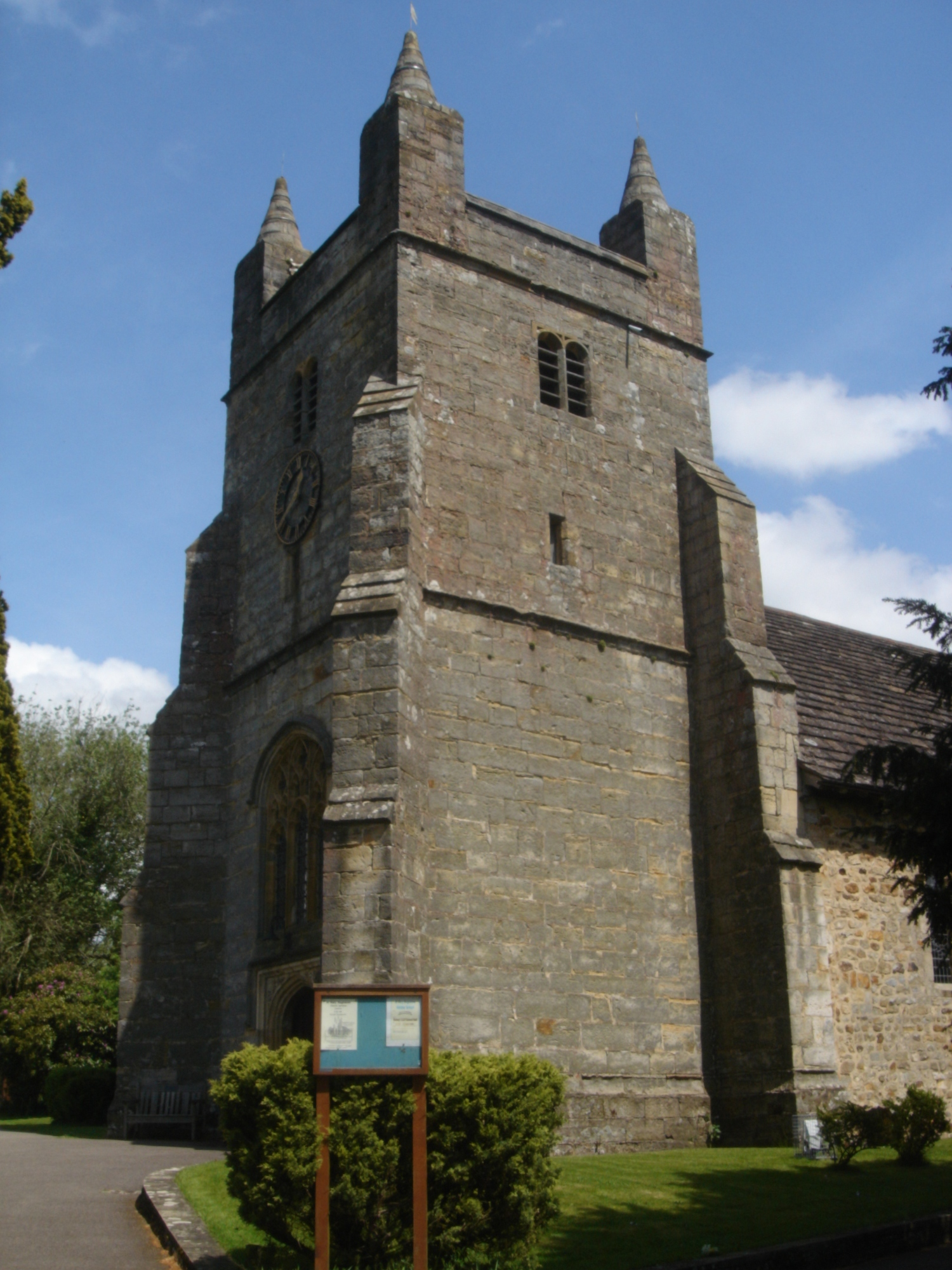 St Mary Magdalene's Church, The Street, Bolney, District of Mid Sussex, West Sussex, England. The parish church of Bolney; listed at Grade I by English Heritage (IoE Code 302420). This view shows the tower, added in 1536–38 and built by villagers.